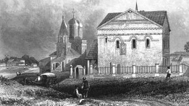 This is litograthia from book of russian writer P.Svin'in «Картины России и быть разноплеменных ея народов»